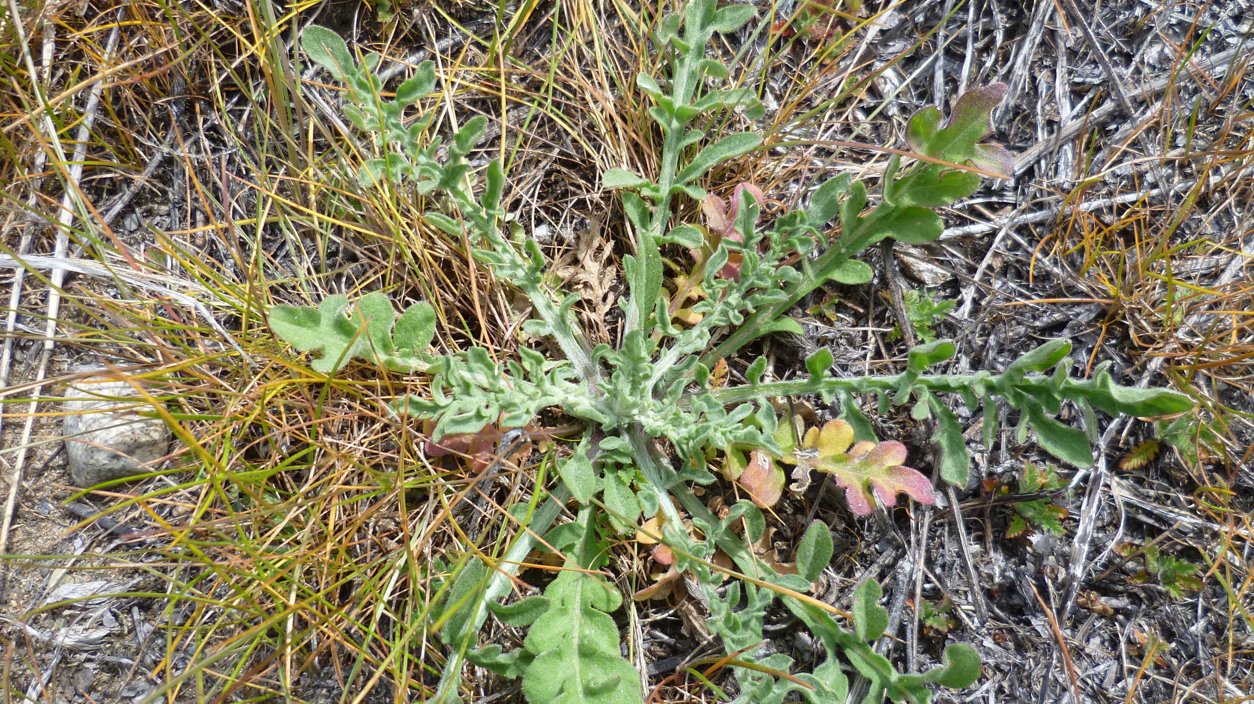 Centaurea diffusa next to the Columbia River, Douglas County Washington